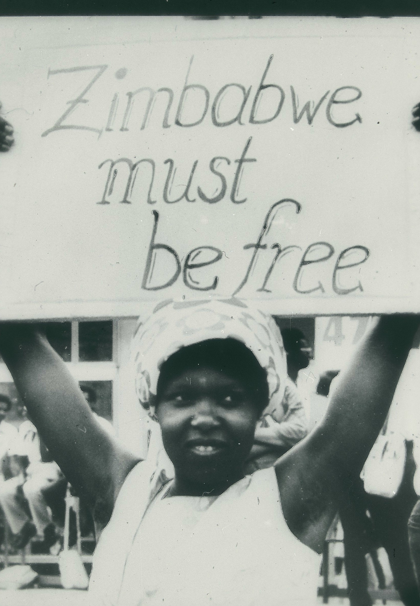 Participant of a demonstration in favour of Zimbabwe's independence from British rule